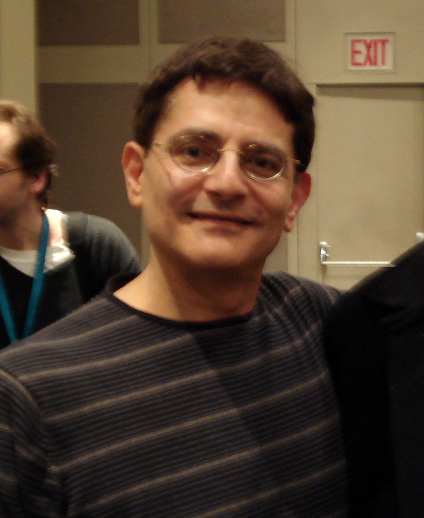 Veteran Marvel comic book editor Ralph Macchio at the 2007 New York Comic-Con. Copyright 2007 Jeffrey O. Gustafson - released under the GFDL and CC-BY-SA-2.0.